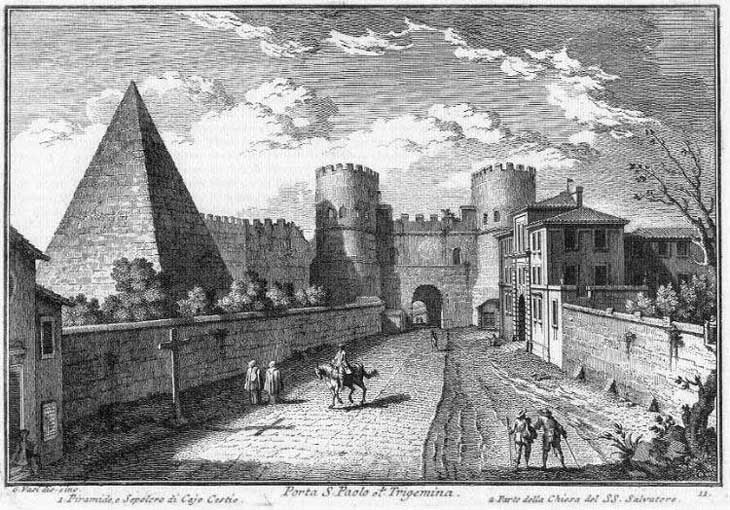 1) Piramide di Caio Cestio; 2) Part of the church of S. Salvatore de Porta.